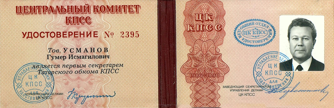 Identity cards of the First Secretary of the Tatar regional Committee of the Communist party of the Soviet Union